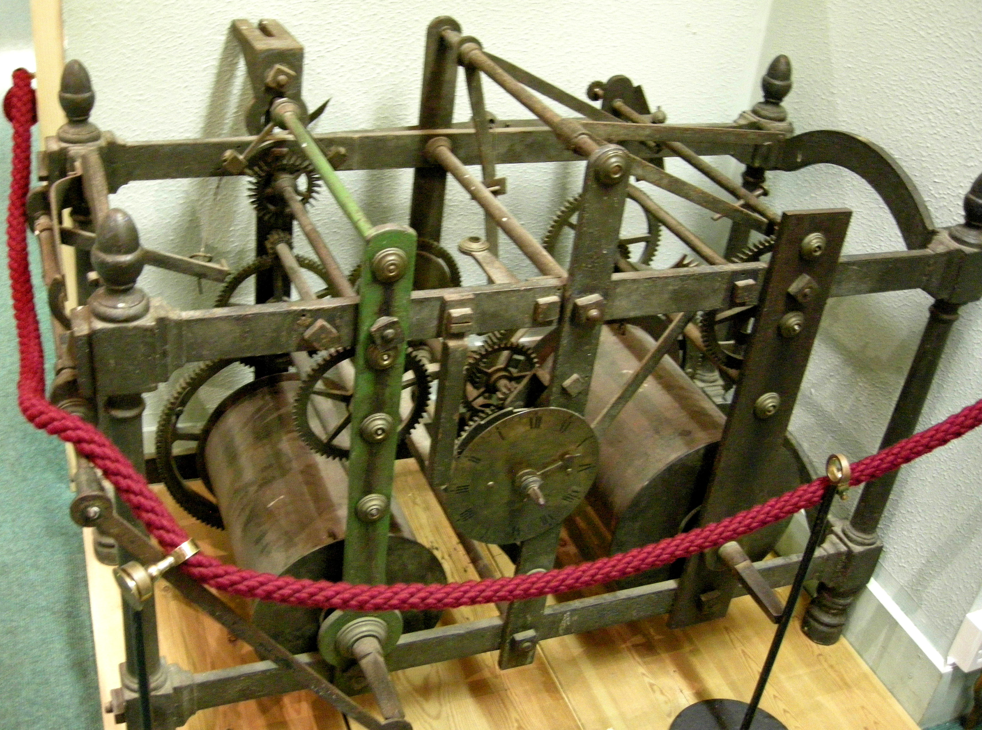 Herne Bay Museum, Herne Bay, Kent.1836 John Moore & Sons turret clock mechanism from the Clock Tower, Herne Bay, Kent, England. Replaced in 1971. Note: the mechanism carries the names Peter Morton of Herne Bay and John Greenwood of Canterbury but these were suppliers and they could not have manufactured this very large movement.